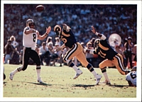 New Orleans Saints quarterback Archie Manning attempting a pass during a November 2, 1980 away game against the Los Angeles Rams. The card is numbered #25 in the set. The back of the card reads: 1980: A Great Year for Manning Archie Manning, the leading passer in the history of the New Orleans Saints, eludes Rams defensive tackle Cody Jones to rifle one of his 309 pass completions in 1980. That figure led the NFC, as did his total of 3,716 yards. Manning was also second in the conference in passing percentage that season, hitting a dazzling 60.7 percent.